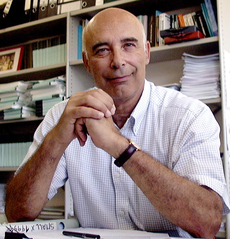 Professor Guido Altarelli, here seen in his office, was Division Leader for Theoretical Physics (TH) at CERN from 01.07.00 - 30.06.03.